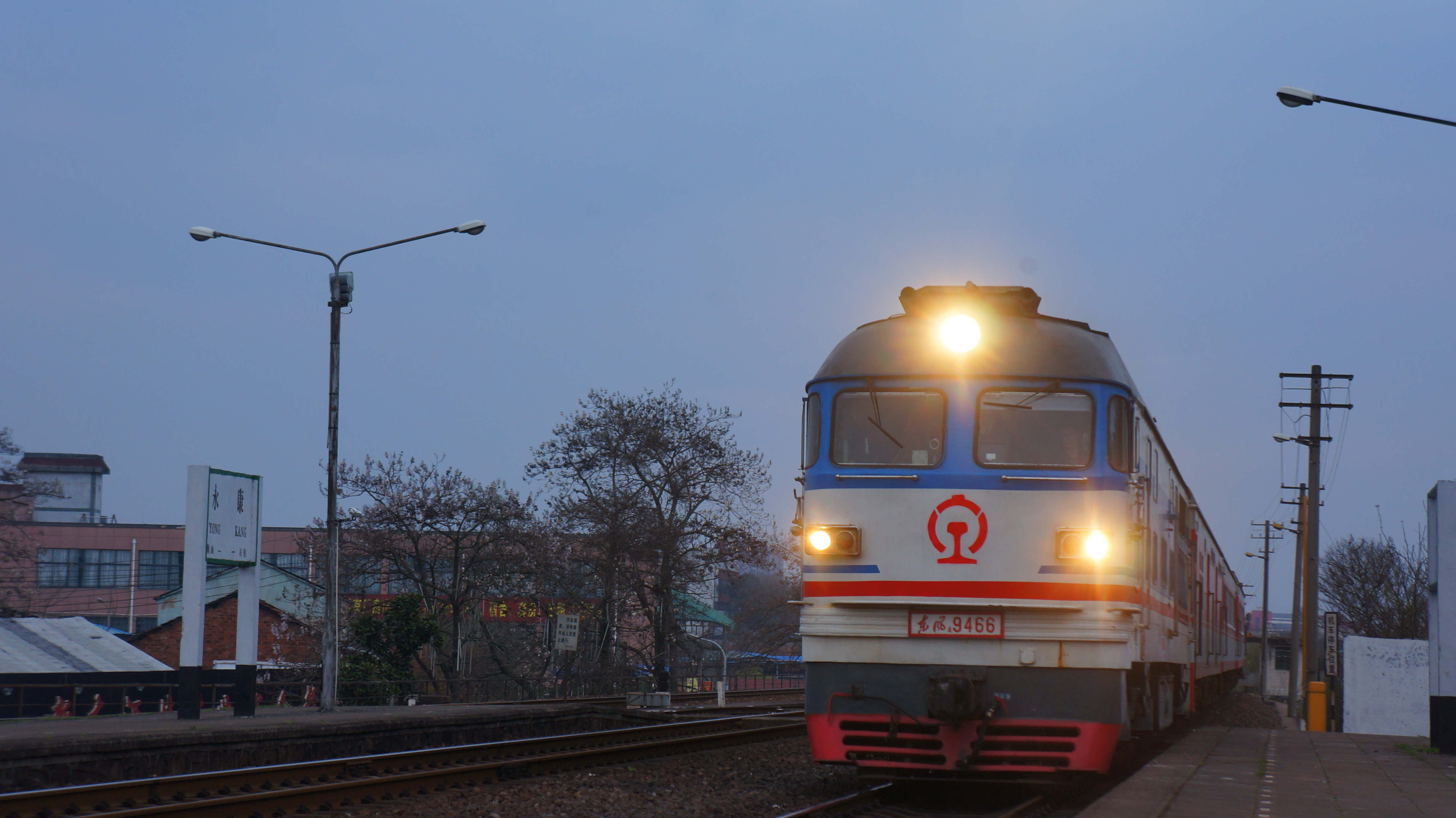 201603 K1586 enters Yongkang Station